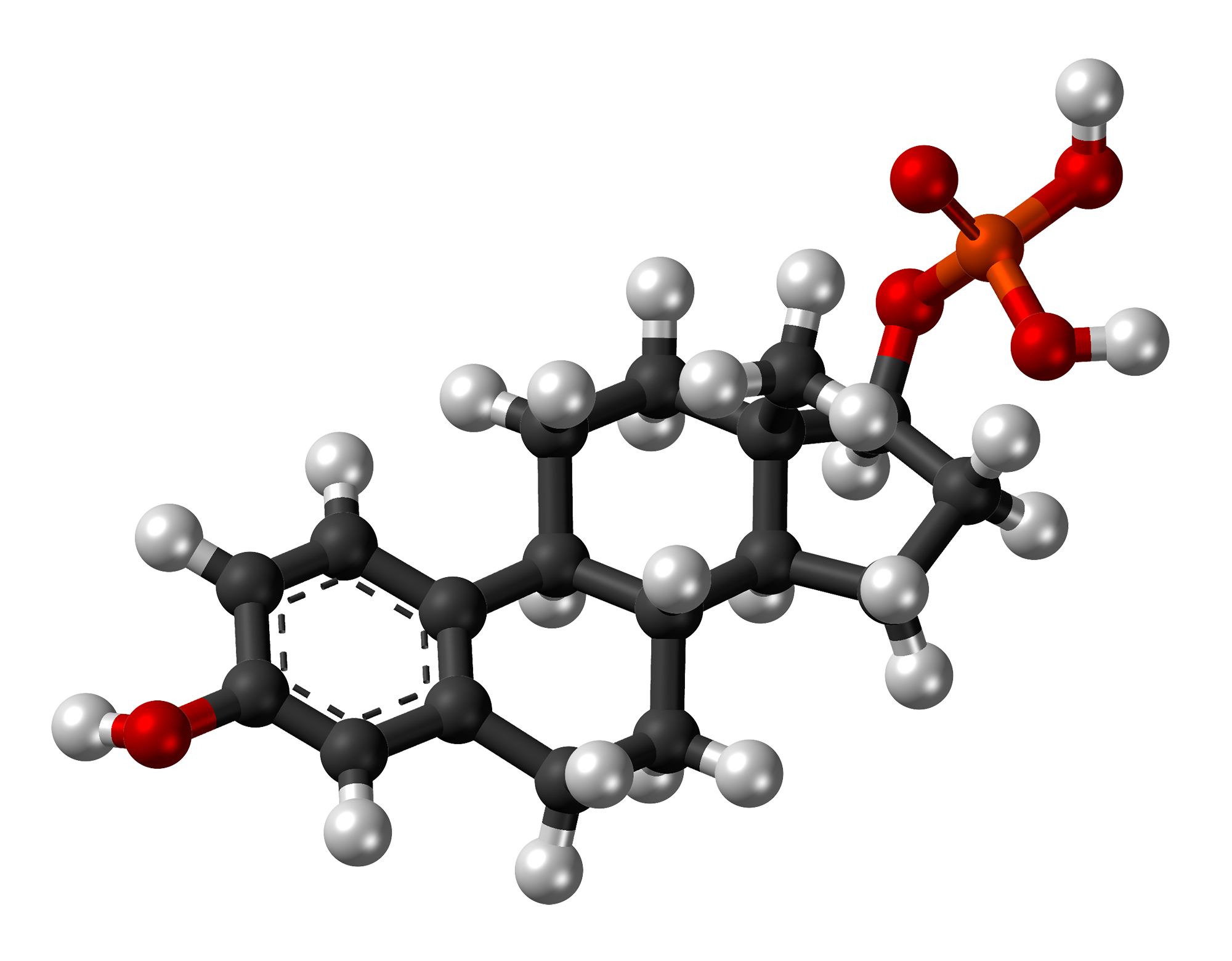 Ball-and-stick model of the estradiol phosphate molecule, the repeat unit of polyestradiol phosphate, an estrogen used to treat prostate cancer. Color code: Carbon, C: black Hydrogen, H: white Oxygen, O: red Phosphorus, P: orange